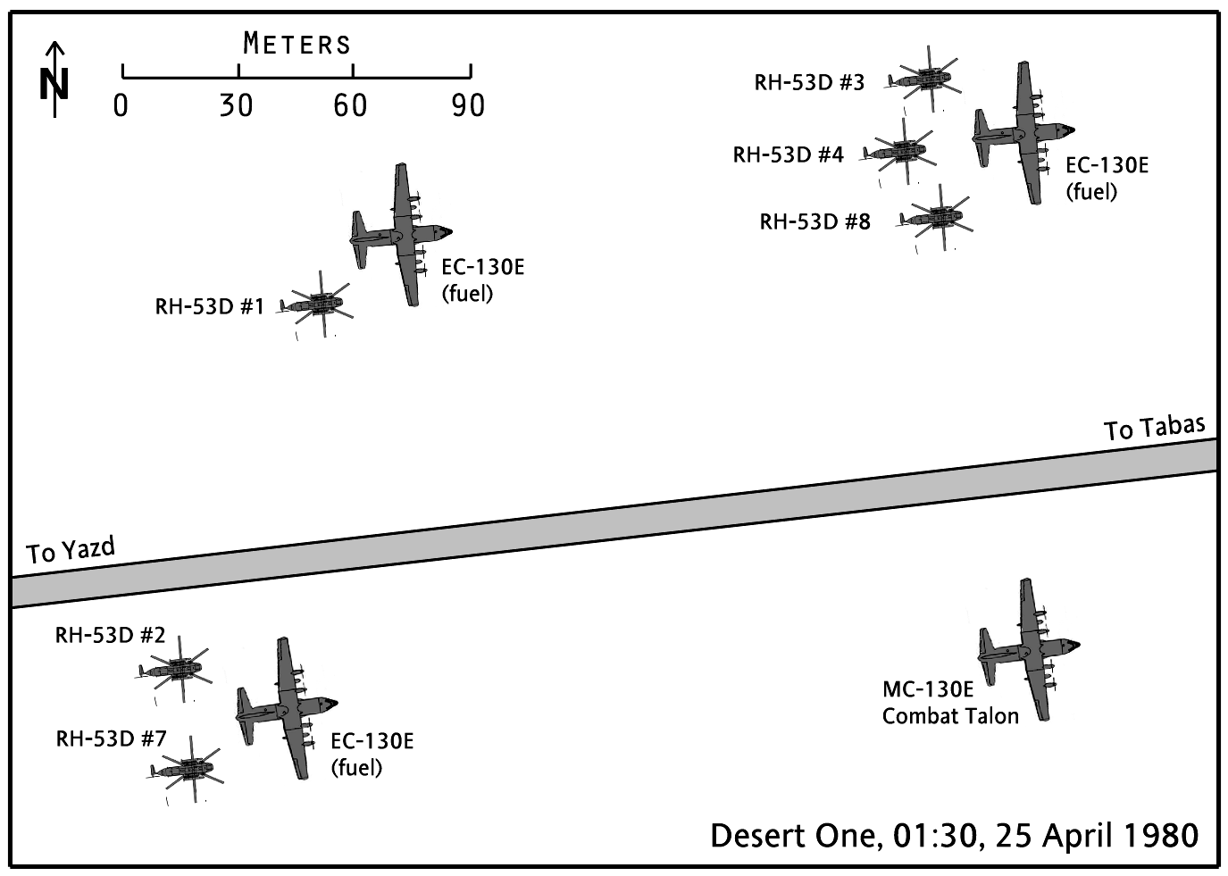 Plan sketch of Desert One, one of the operation bases of Eagle Claw, the Iranian hostage rescue attempt on 25 April 1980. Own work, based on drawing in Americans at War, Daniel p: Bolger, Presidio Press 1988, pag. 118.